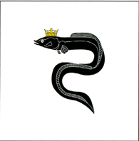 Flag of Chișcăreni, Sîngerei.gif